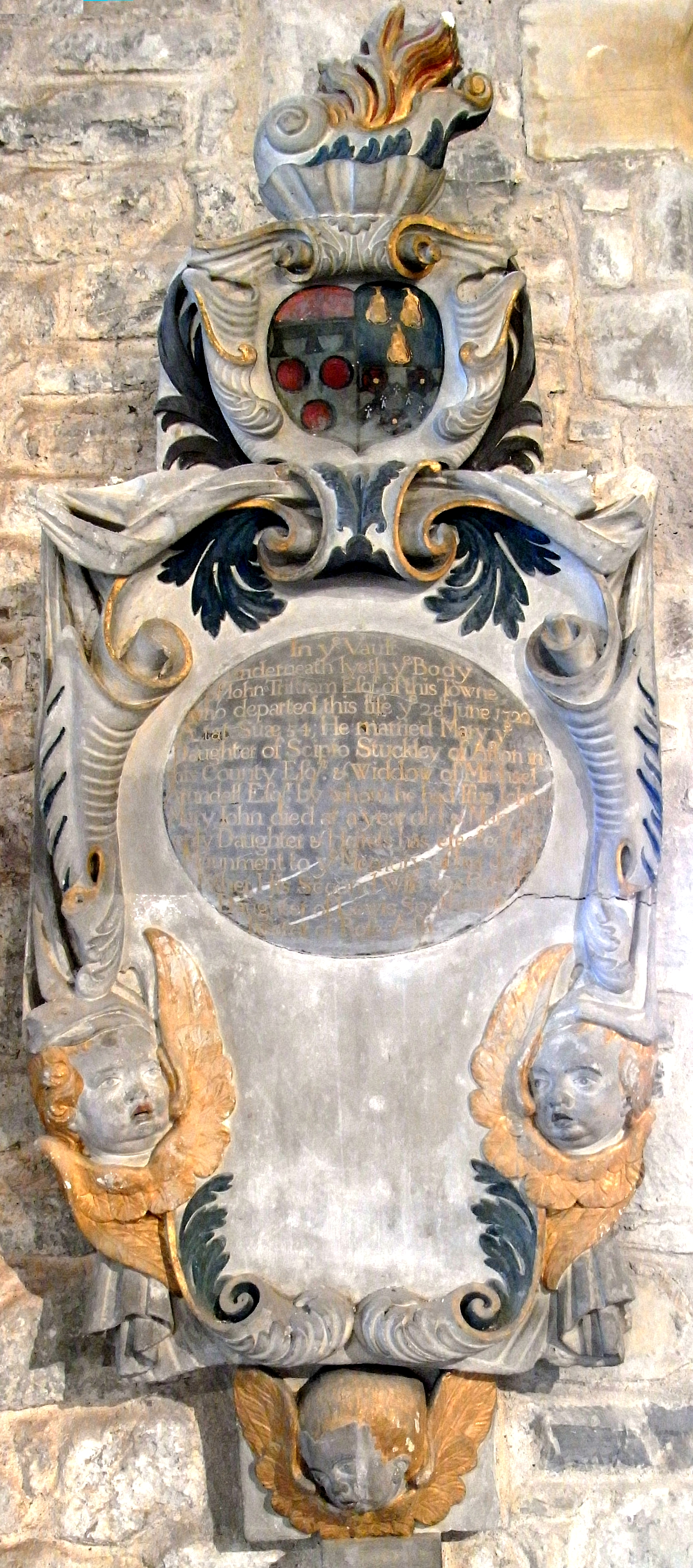 Mural monument to John Tristram (1668-1722) of Castle Grove and Duvale, Bampton, Devon. Bampton parish church. Inscribed as follows: "In ye vault underneath lyeth ye body of John Tristram Esqr. of this Towne who departed this life ye 28th June 1722 aetat(is) suae 54. He married Mary ye daughter of Scipio Stuckley of Afeton in this county, Esqr., & widdow of Michael Arundell, Esqr., by whom he had issue John & Mary. John died at a year old & Mary his only daughter & heiress has erected this monument to ye memory of her dece'd father. His second wife was Gartrude daughter of Lewis Southcomb of Rose Ash". On the escutcheon above are shown the arms of Tristram (Argent, three torteaux a label of three points azure a chief gules) impaling Stucley (Azure, three pears or) and Southcombe (Argent, a chevron ermines between three roses gules seeded or barbed vert)